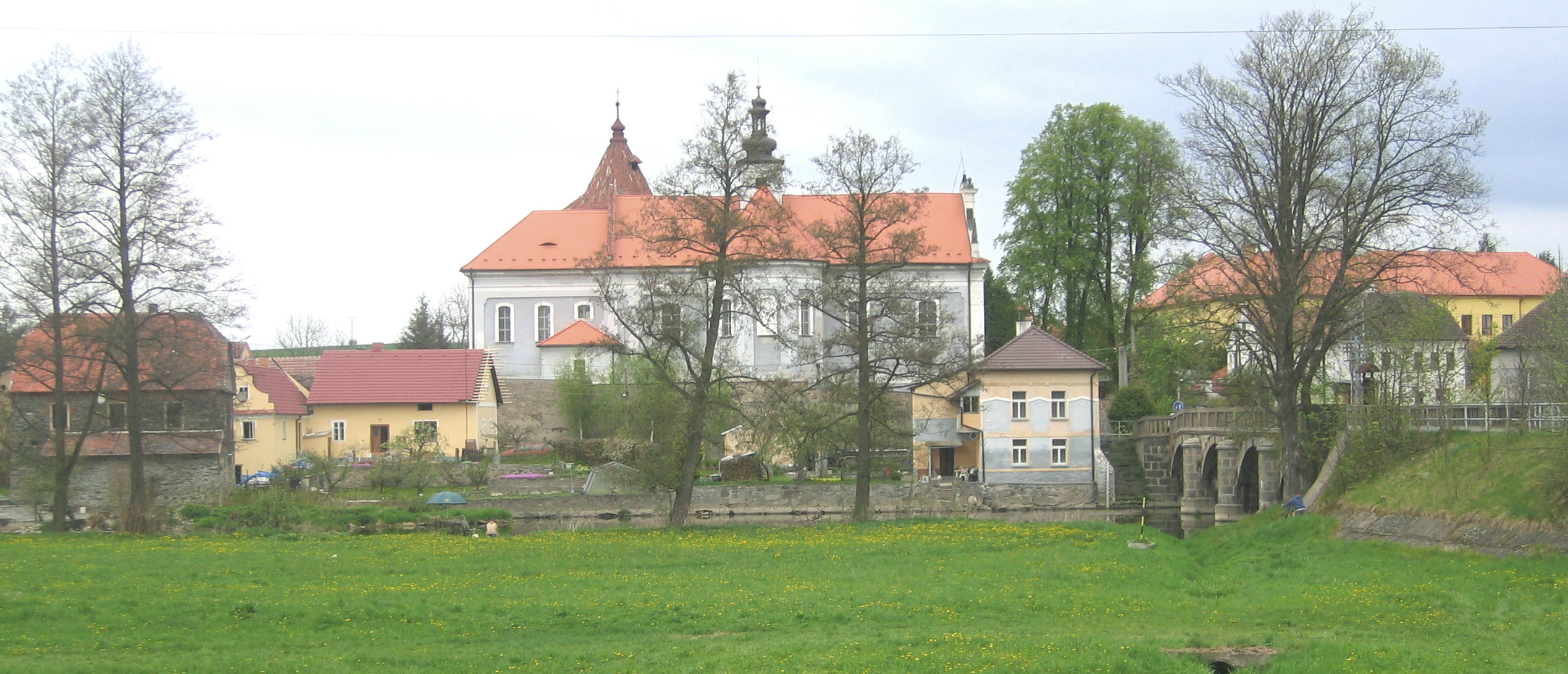 Mirovice (Písek district, Czech Republic)